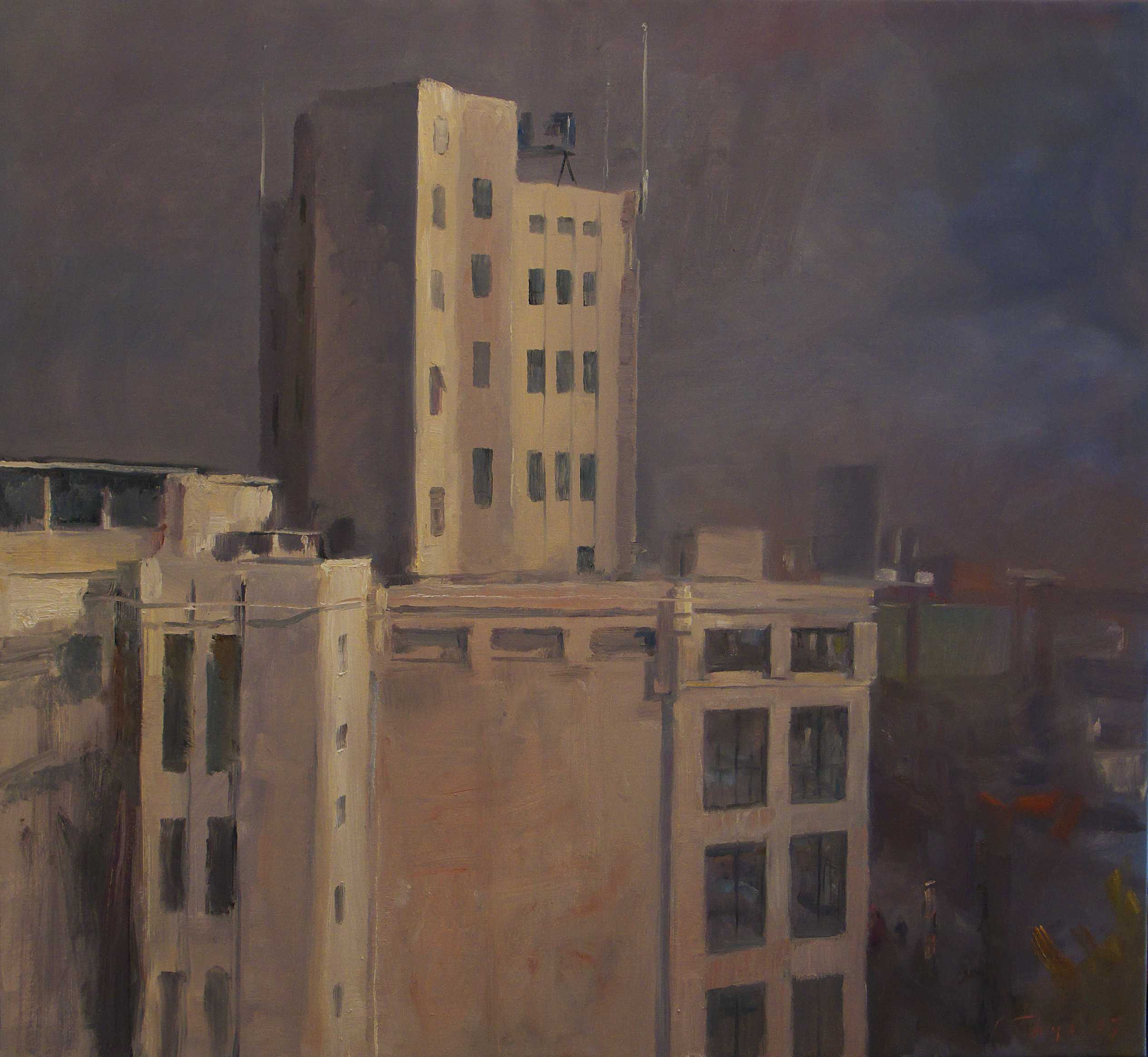 Philips Eindhoven main building, lighttower, seen from the south from 5th floor Design Academy, de Witte Dame.